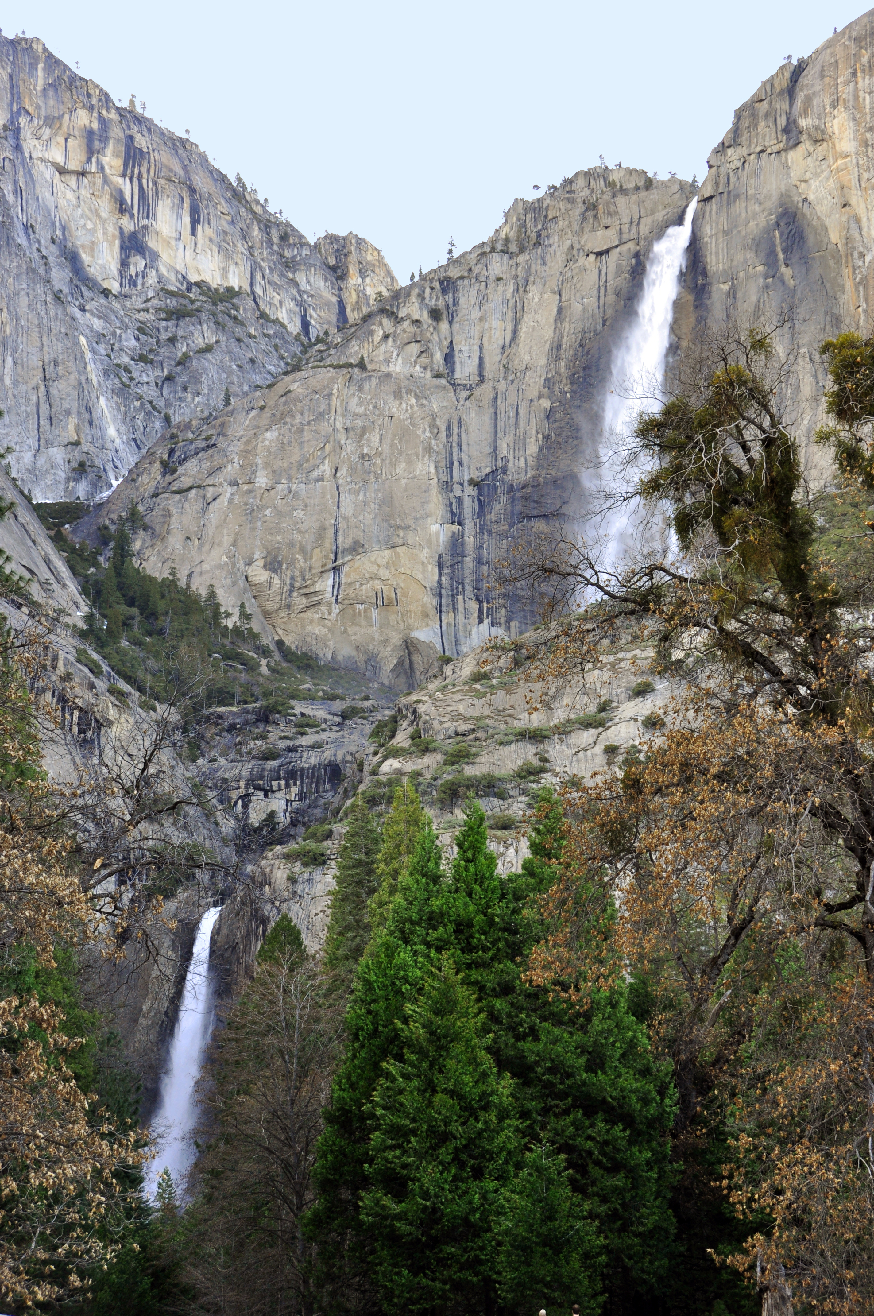 Yosemite National Park Yosemite Falls winter 2010